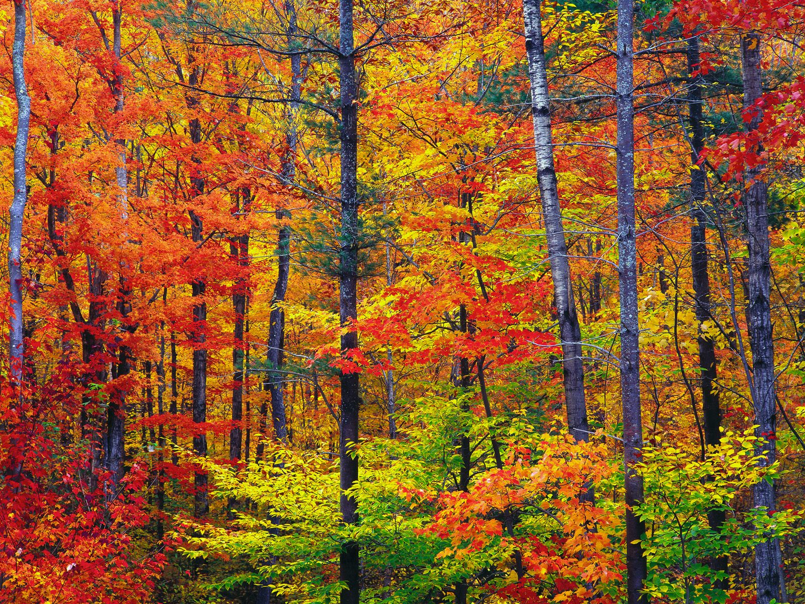 New Hampshire, USAColors of New Hampshire